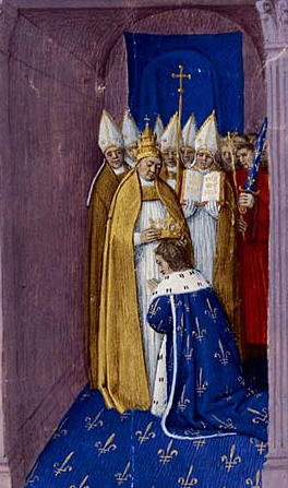 Pepin le Bref